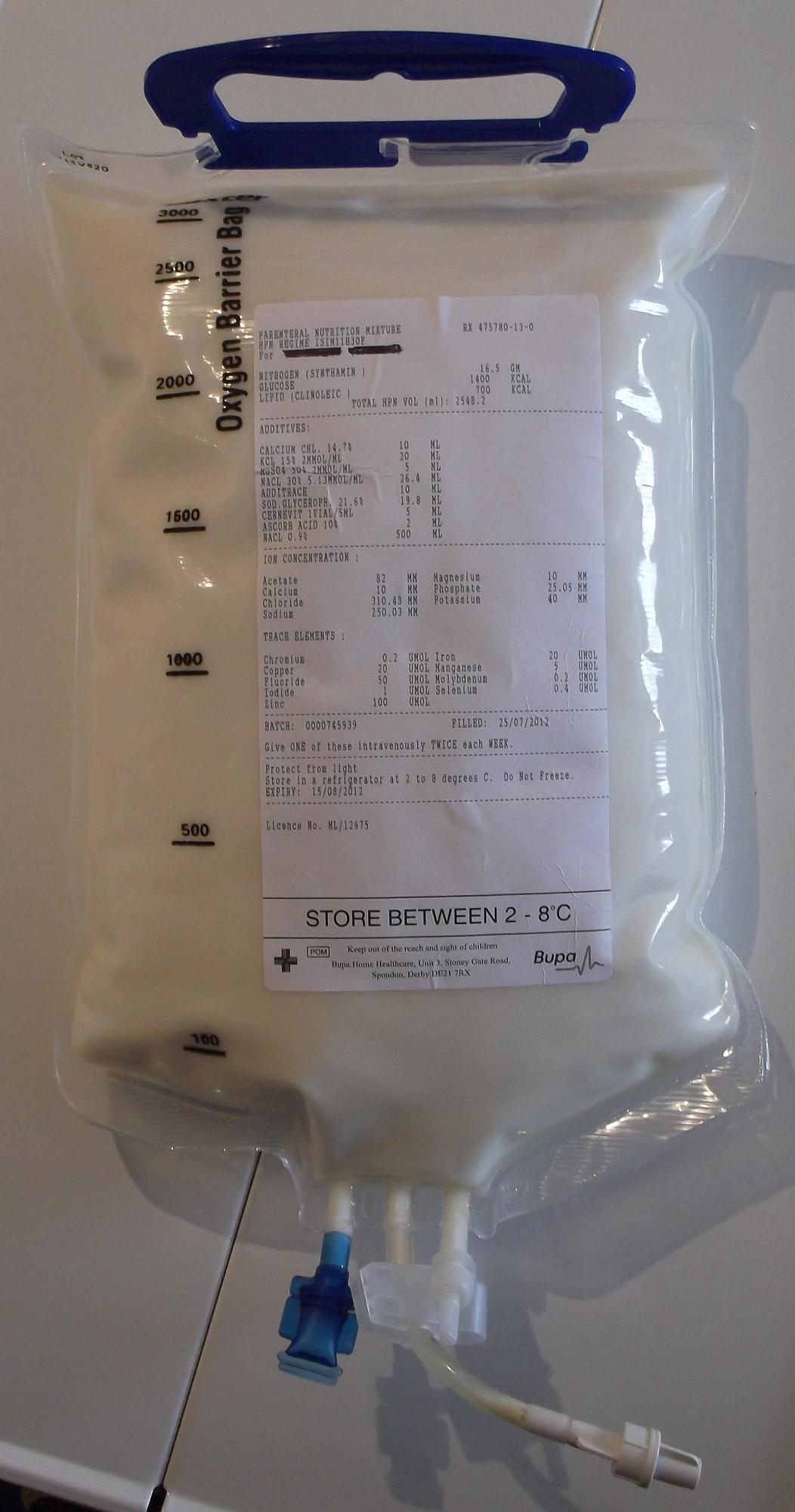 Image of bag of prescription lipid HPN formulation.